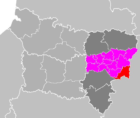 Maps of arrondissements and cantons of France: Arrondissement de Laon